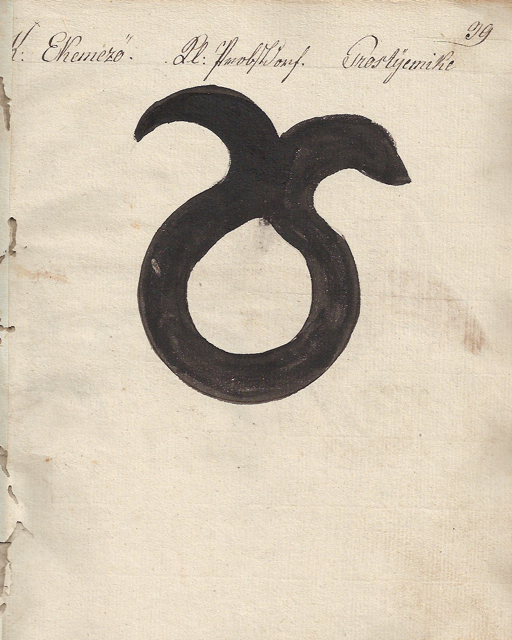 Cattle brand of Kleinprobstdorf/Proştea Mica (Târnăvioara)/Kisekemező